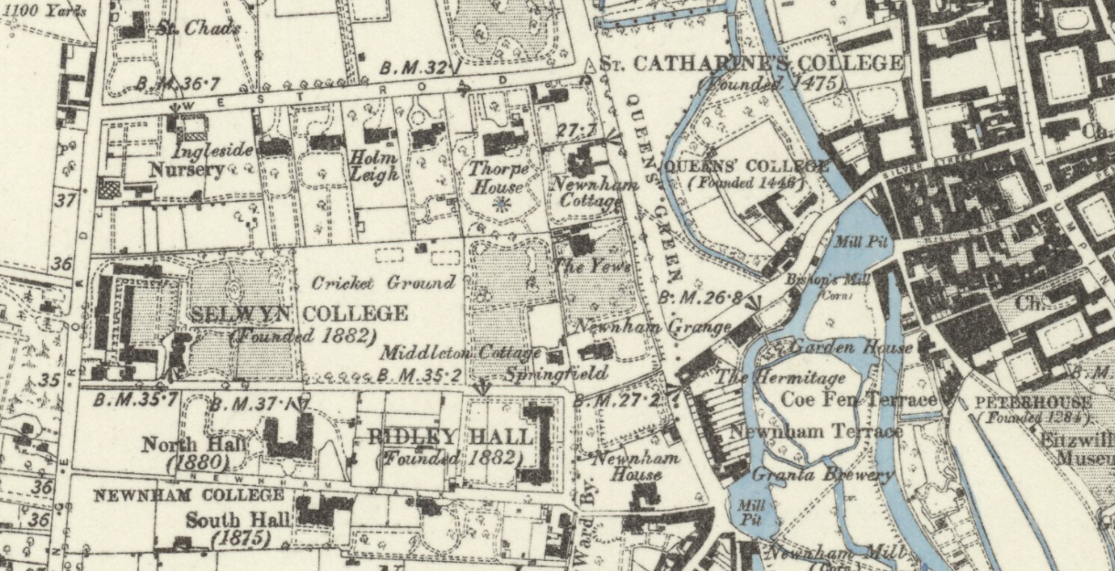 Map of Cambridge, England (1886)